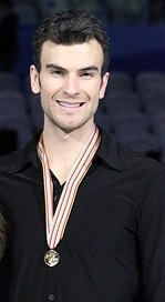 Eric Radford at the 2015 World Figure Skating Championships.